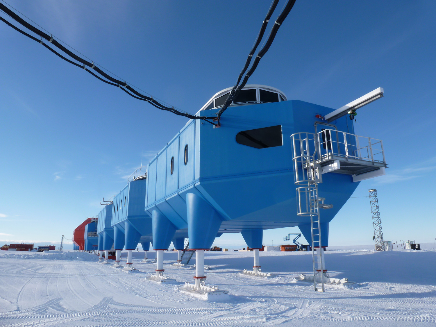 The Halley Research Station is a research facility in Antarctica. This image is of the Halley VI buildings consisting of a string of eight modules jacked up on hydraulic legs to keep it above the accumulation of snow.